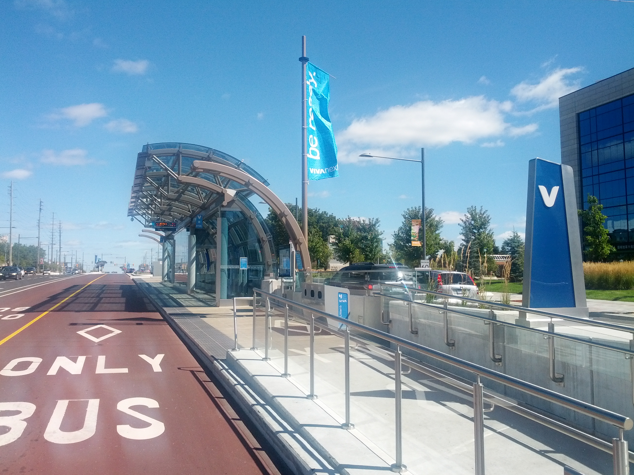 West Beaver Creek Vivastation at Highway7 rapidway